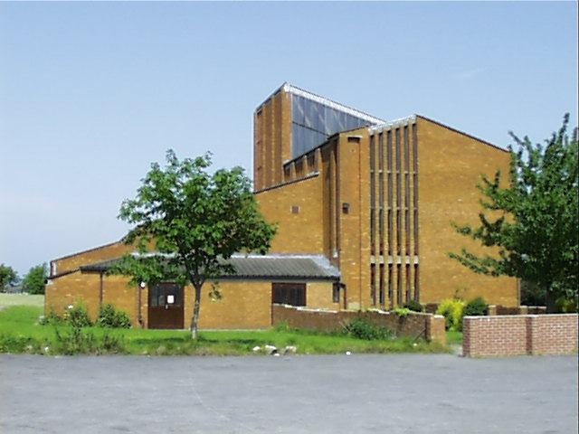 St Augustine's parish church, Whitchurch Lane, Whitchuch, Bristol, in 2000. The church closed shortly after due to structural defects.